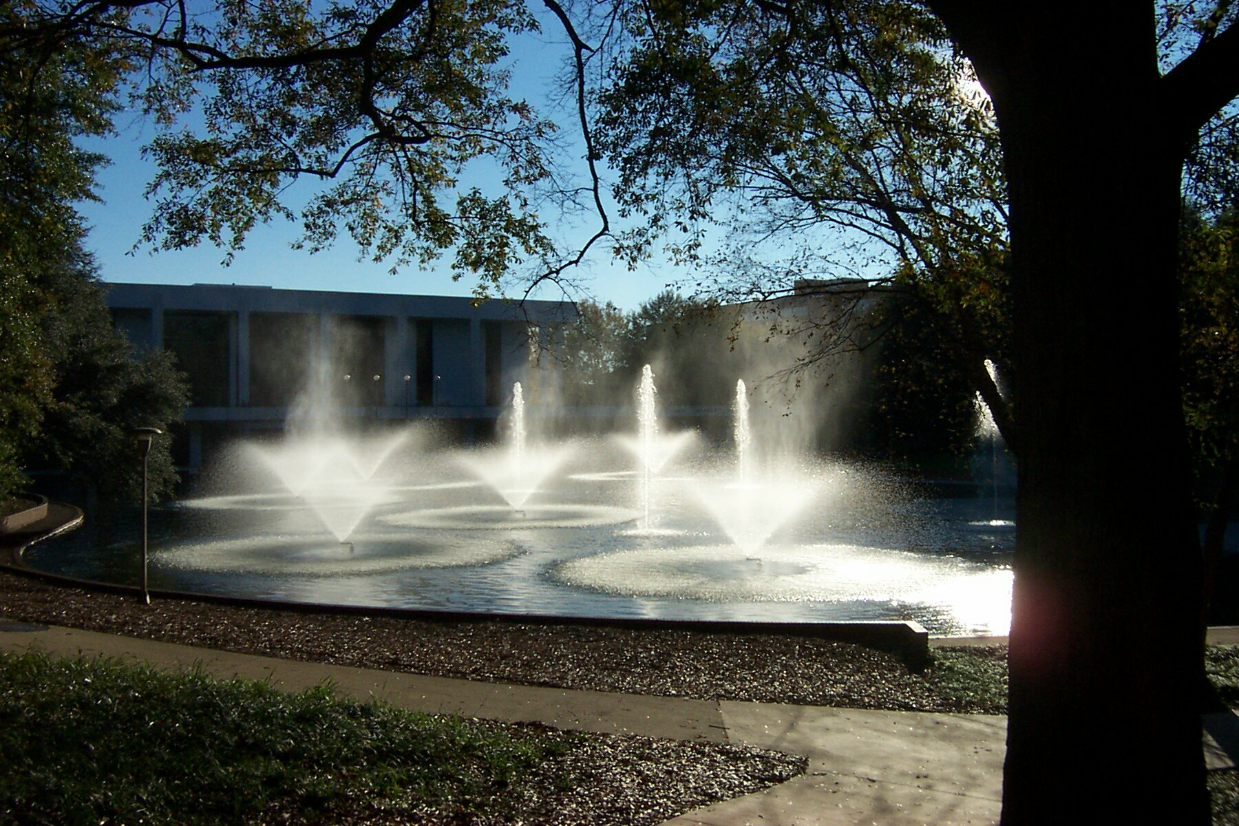 The reflection pond at Clemson University in South Carolina, USA.